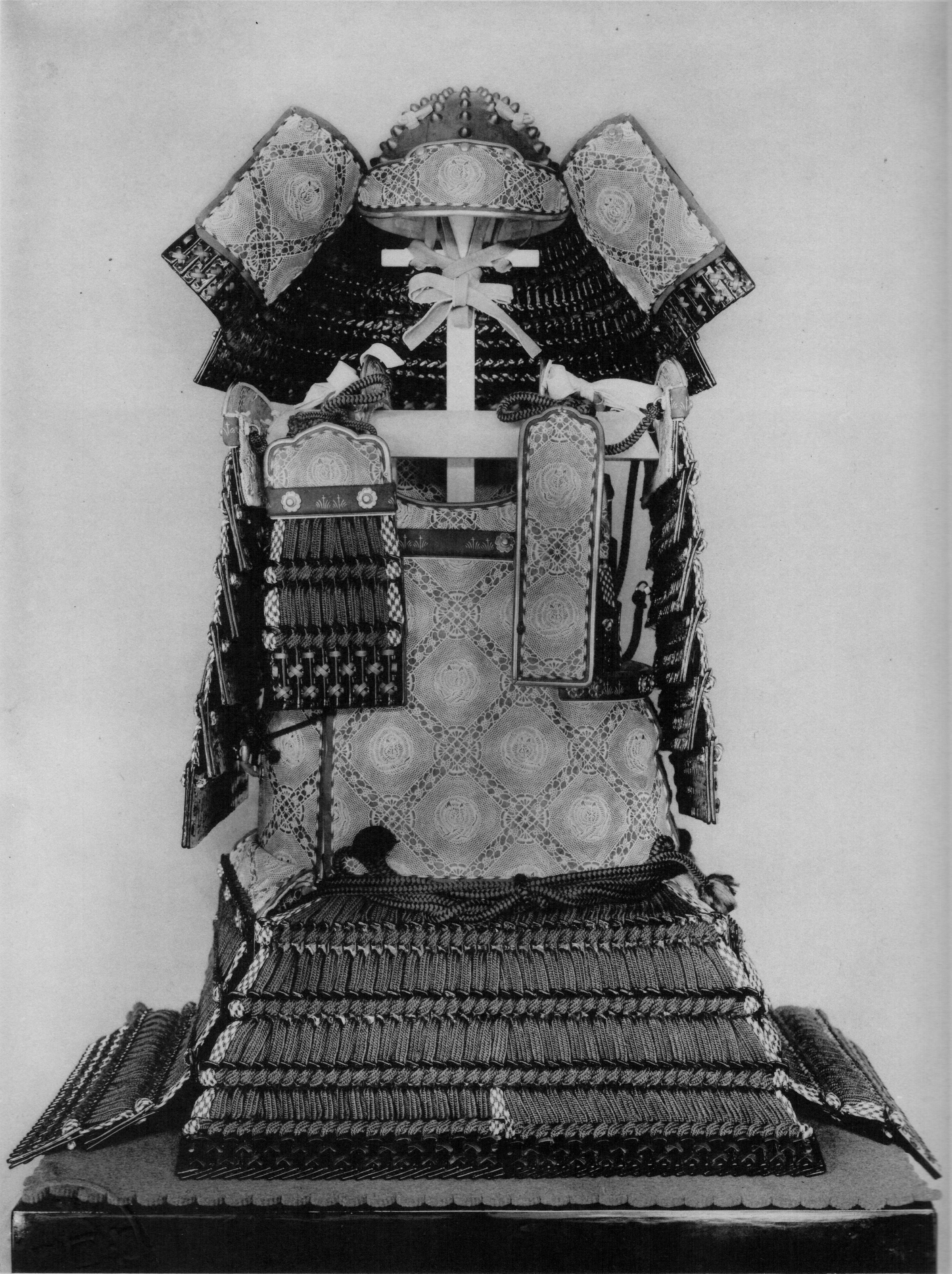 The suit of Kon'ito-odoshi Ō-yoroi (Ō-yoroi laced by navy braid) at Ōyamazumi Shrine in Ehime Prefecture. This is a replica made around 1935. A view from frontside.